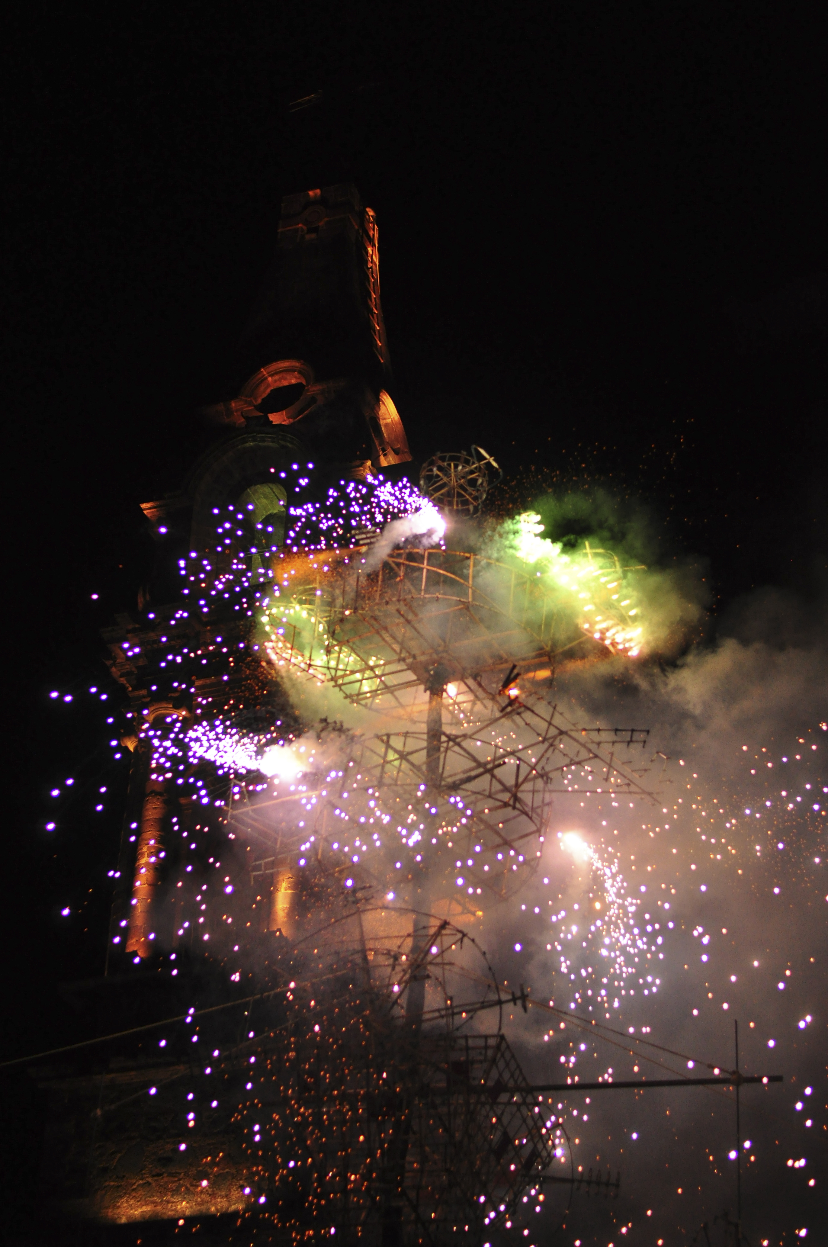 Celebración de la virgen de la Asunción.